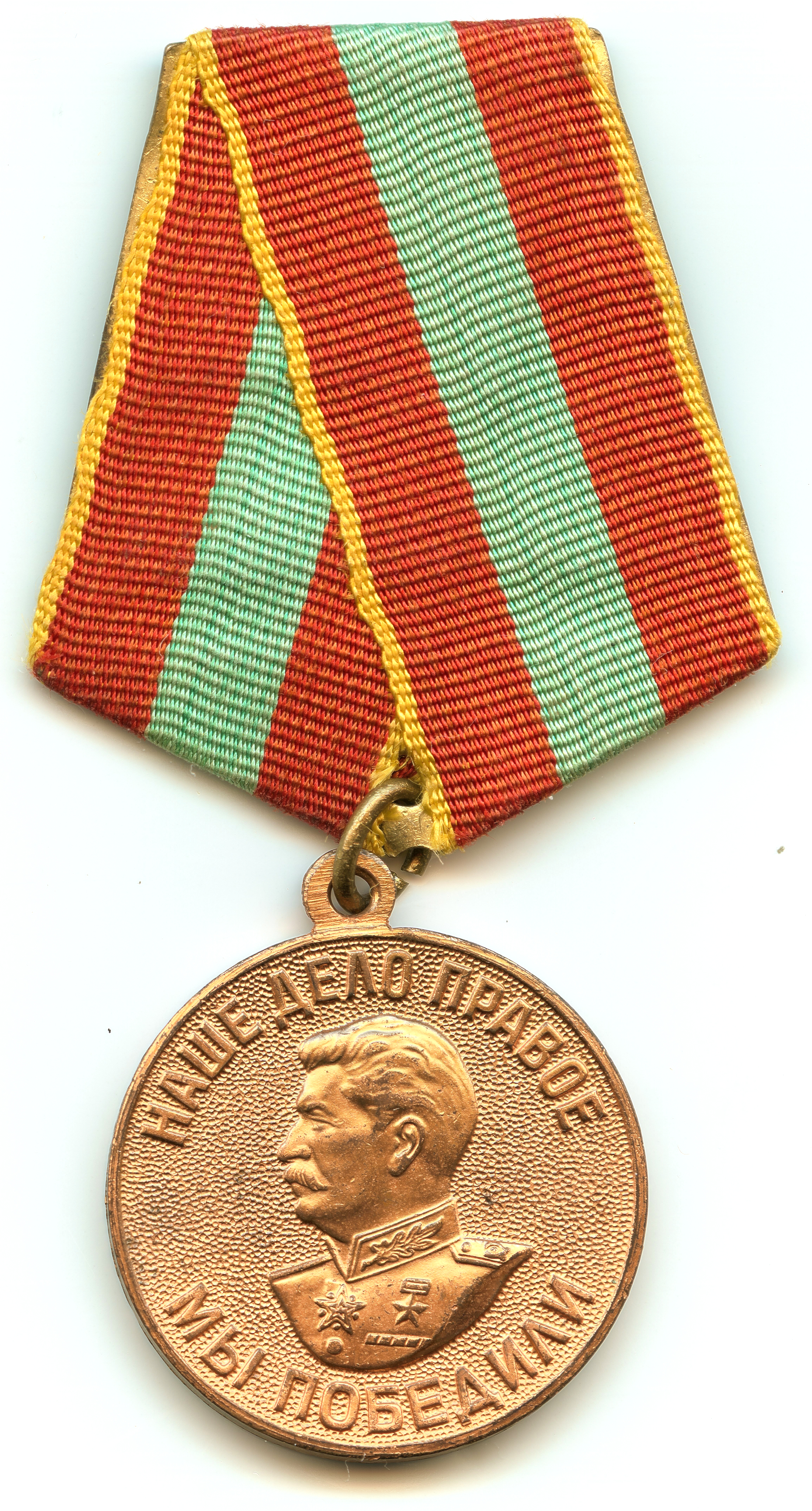 Soviet medal for Heroic Labor During The Great Patriotic War (WWII)